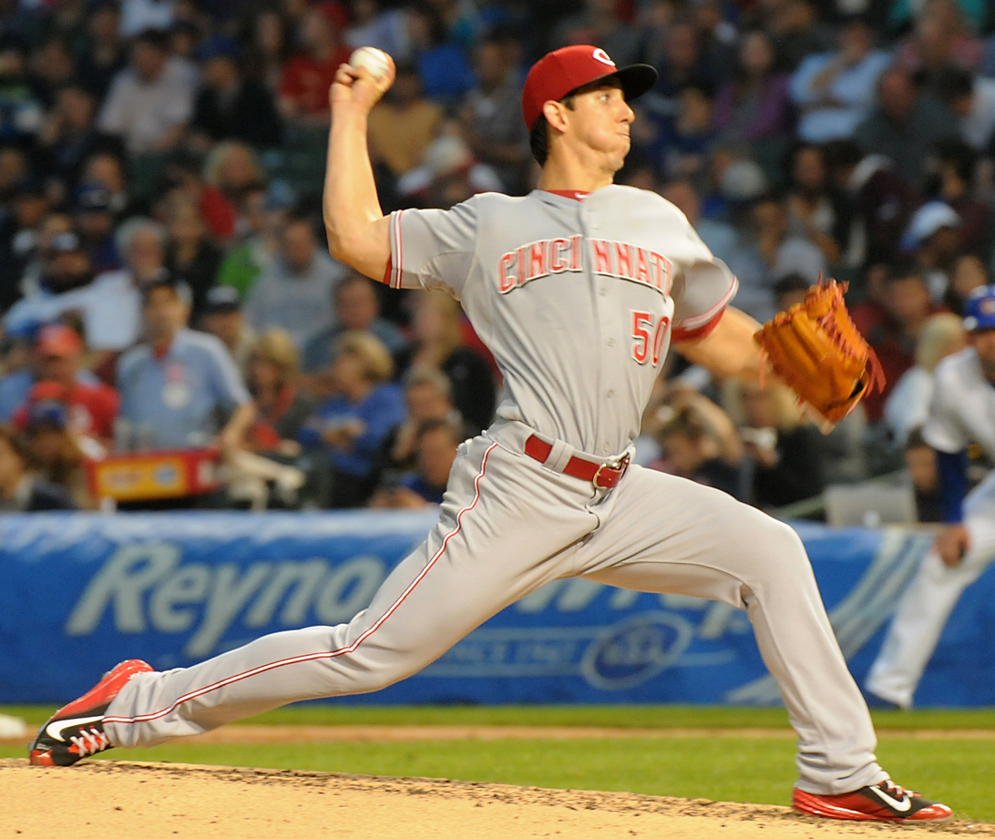 Michael Lorenzen delivers a pitch for the Cincinnati Reds at Wrigley Field in 2015.